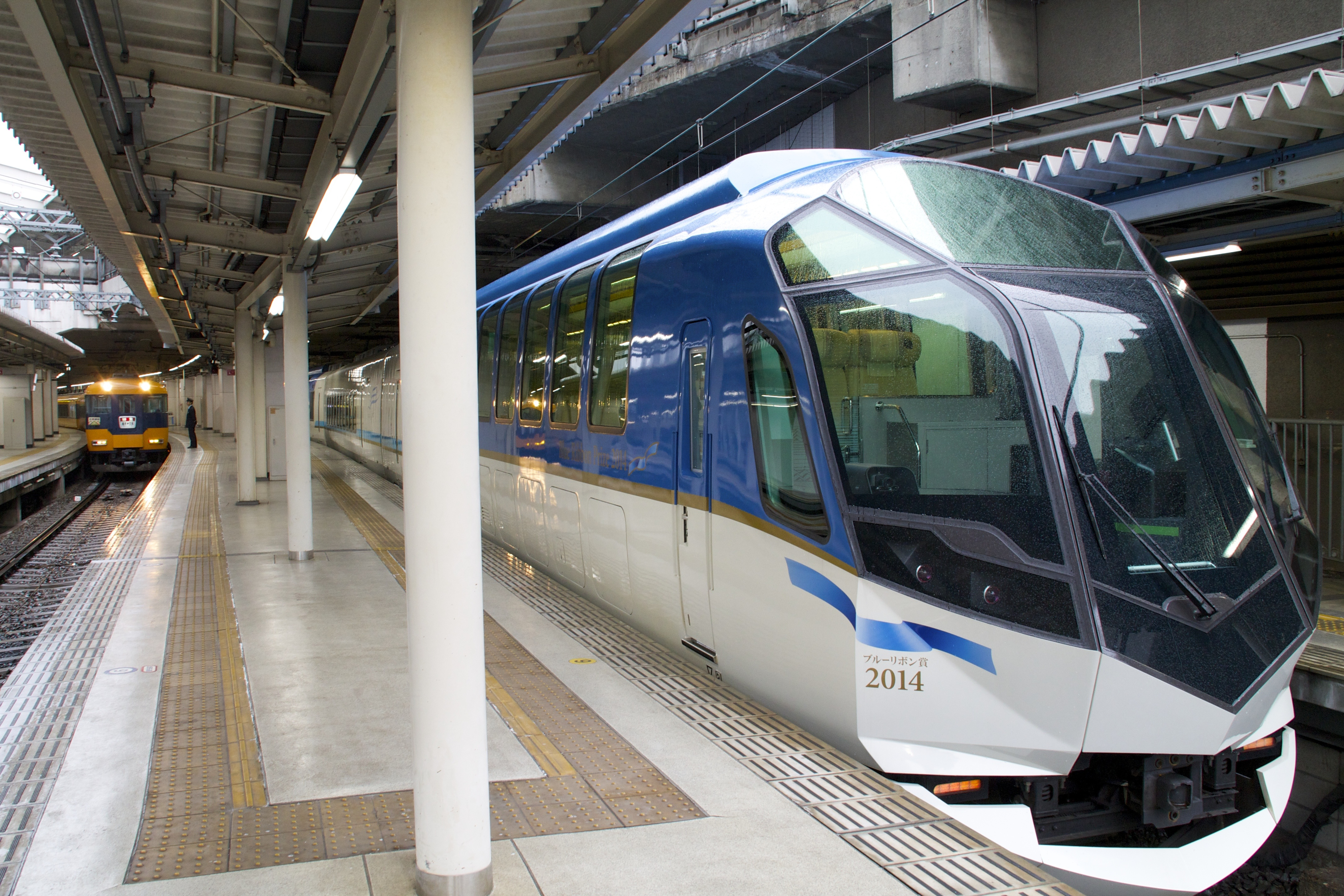 Limited Exp. Shimakaze at Kyoto Station